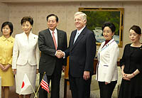 Ambassador Schieffer on March 19 met Diet members of the New Komeito party about strengthening laws and increasing cooperation in the international fight against child pornography. Participants, left to right, were Yoko Wanibuchi, Akira Matsu, Akihiro Ota, the Ambassador, Toshiko Hamayotsu, and Kaori Maruya.